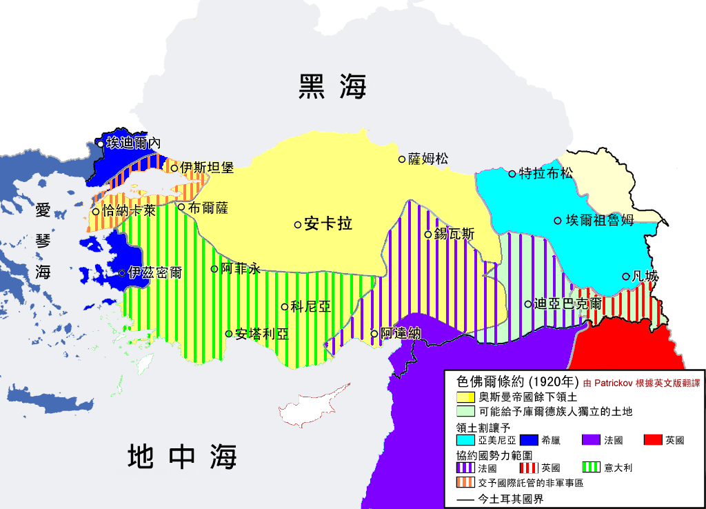 This is the Traditional Chinese translation of the image Image:TreatyOfSevres (corrected).PNG